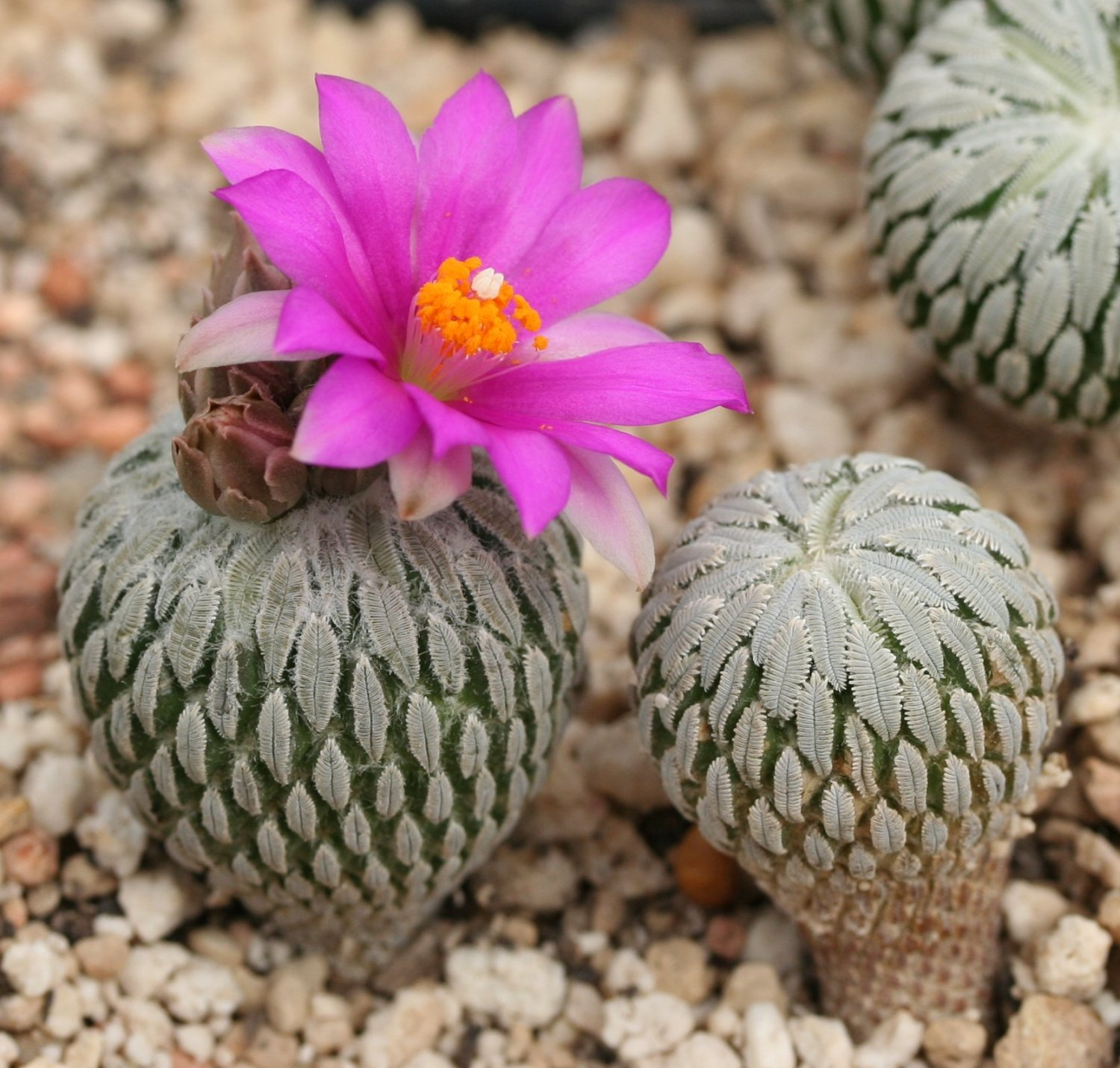 Pelecyphora asseliformis in Blüte